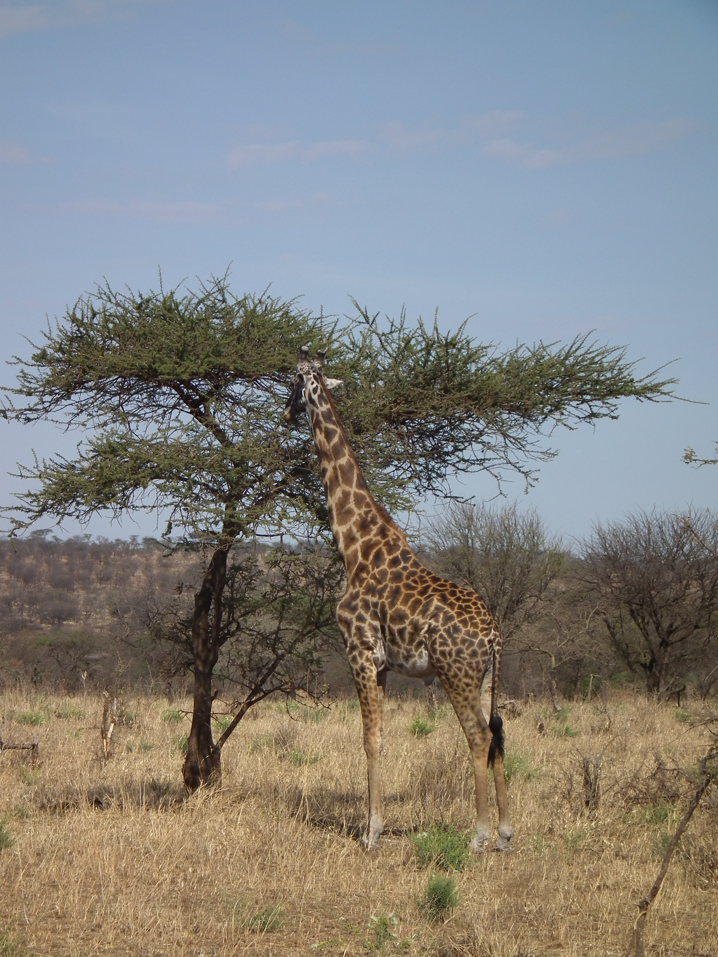 Giraffe browsing on Umbrella thorn, Tanzania